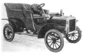 Image from a Jackson Automobile Company advertisement Title Motor age, Volume 7 Publisher Class Journal Co., 1905 Original from the New York Public Library Digitized Jun 24, 2006 google books